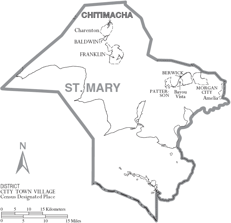 Map of St._Mary Parish, Louisiana, United States with municipal boundaries